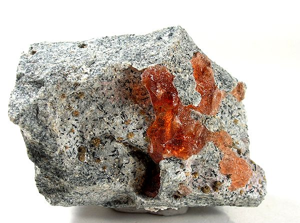 Villiaumite Locality: Aris Quarries (Ariskop Quarry; Railway Quarry), Aris, Windhoek, Windhoek District, Khomas Region, Namibia (Locality at ) Size: miniature, 6.1 x 5 x 2.8 cm Villiaumite This comes from an incredible, I would even say UNPRECEDENTED, find for the species featuring incredible orange-red color and GEMMINESS combined with complex crystal structure that taken together makes these crystals superficially resemble a spessartine garnet. This was one of the few decent matrix specimens from the find, as was reported from Munich in the Mineralogical Record (where one specimen I had previously is illustrated). Much of the material was being sold as facet rough and was anyways of poor quality or small, partial crystals. This specimen stands out as an actually somewhat non-ugly matrix piece, and though the crystals are not super-sharp they are nevertheless real crystals, and colorful at that.